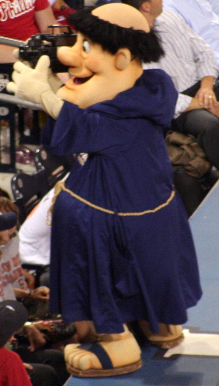 The Swinging Friar, the mascot for the San Diego Padres.